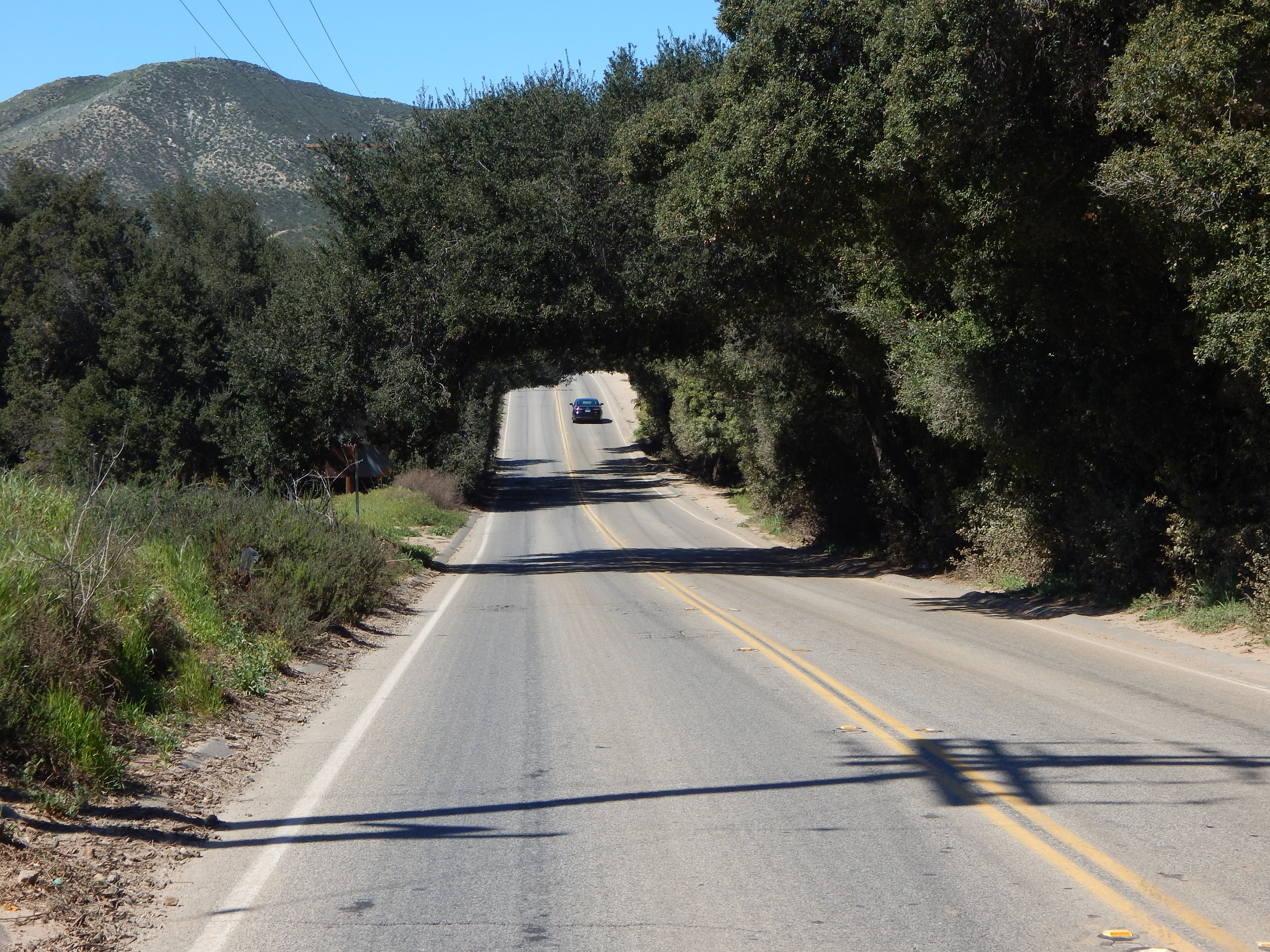 Tree Tunnel, Bundy Canyon Road, Wildomar, California, USA